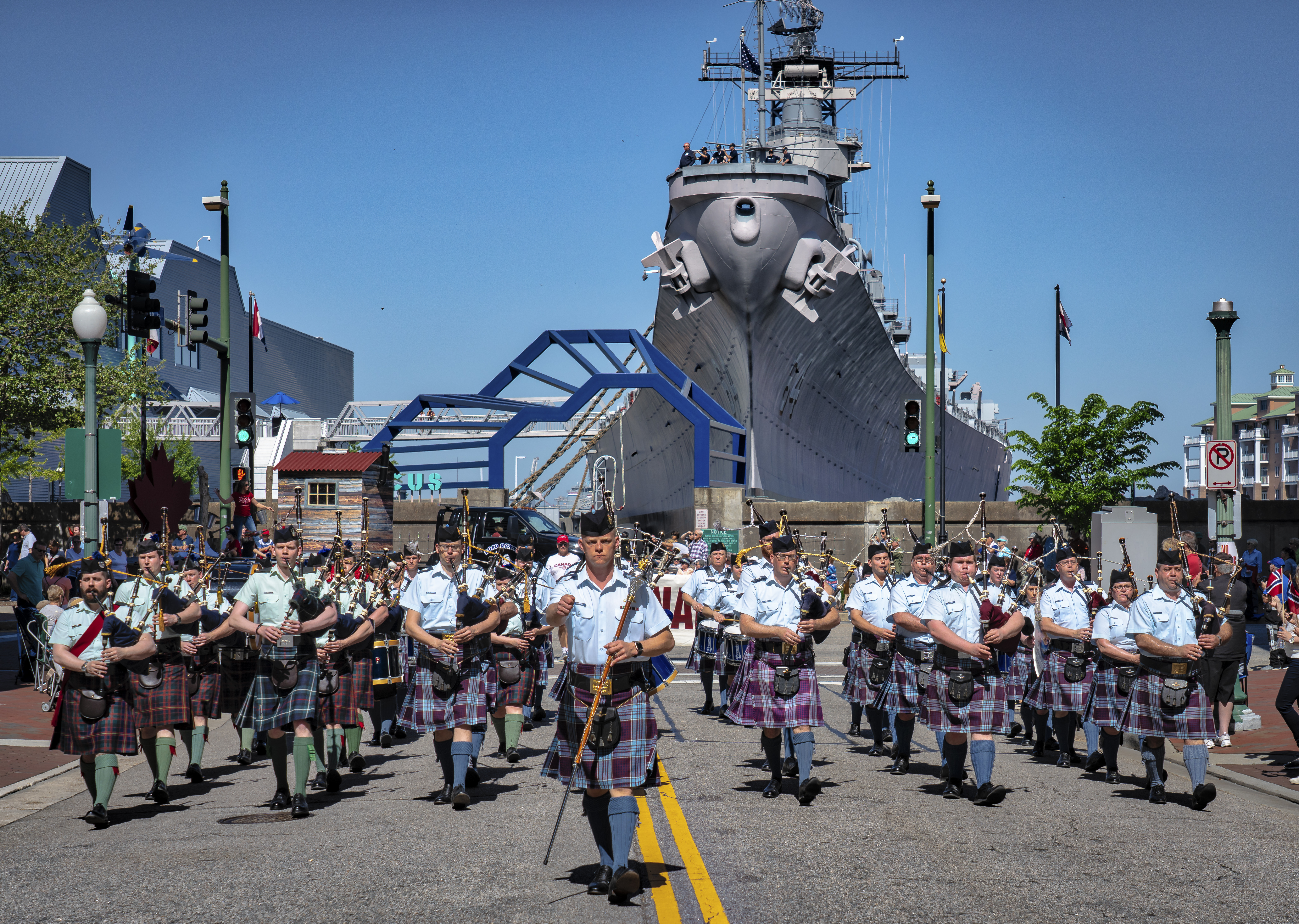 On 28 April 2018 Canadian Forces Pipes and Drums march in Norfolk's 2018 NATO Parade, with the battleship USS Wisconsin as background. The Canadians are also performers in the celebrated Virginia International Tattoo, which takes place each year in Norfolk's Scope Arena.